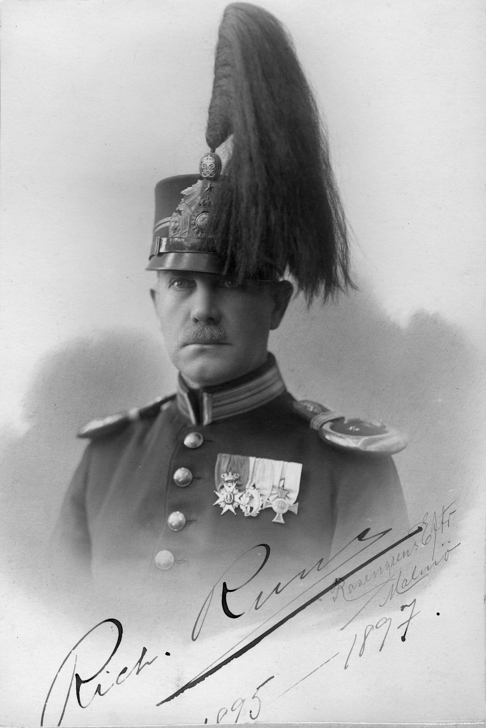 Johansson, Rune Rickard Herman, född 1869-05-06. Stabstrumpetare och musikanförare vid Smålands artilleriregemente A6. Stabstrompeter und Musikleiter bei Smålands Artillerieregiment, A6. Trumpet-Major and Bandmaster. Småland Artillery, A6.